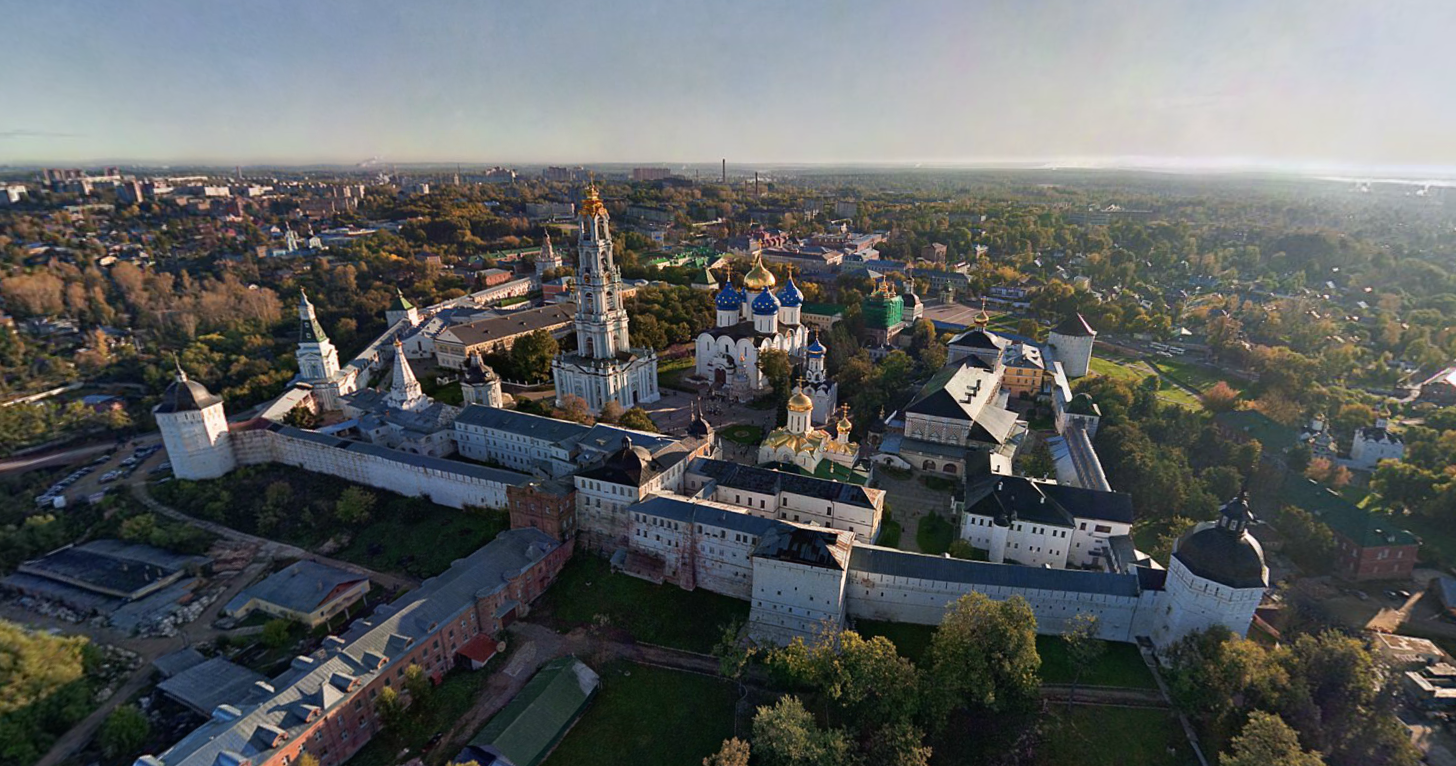 Сергиев Посад с высоты птичьего полета